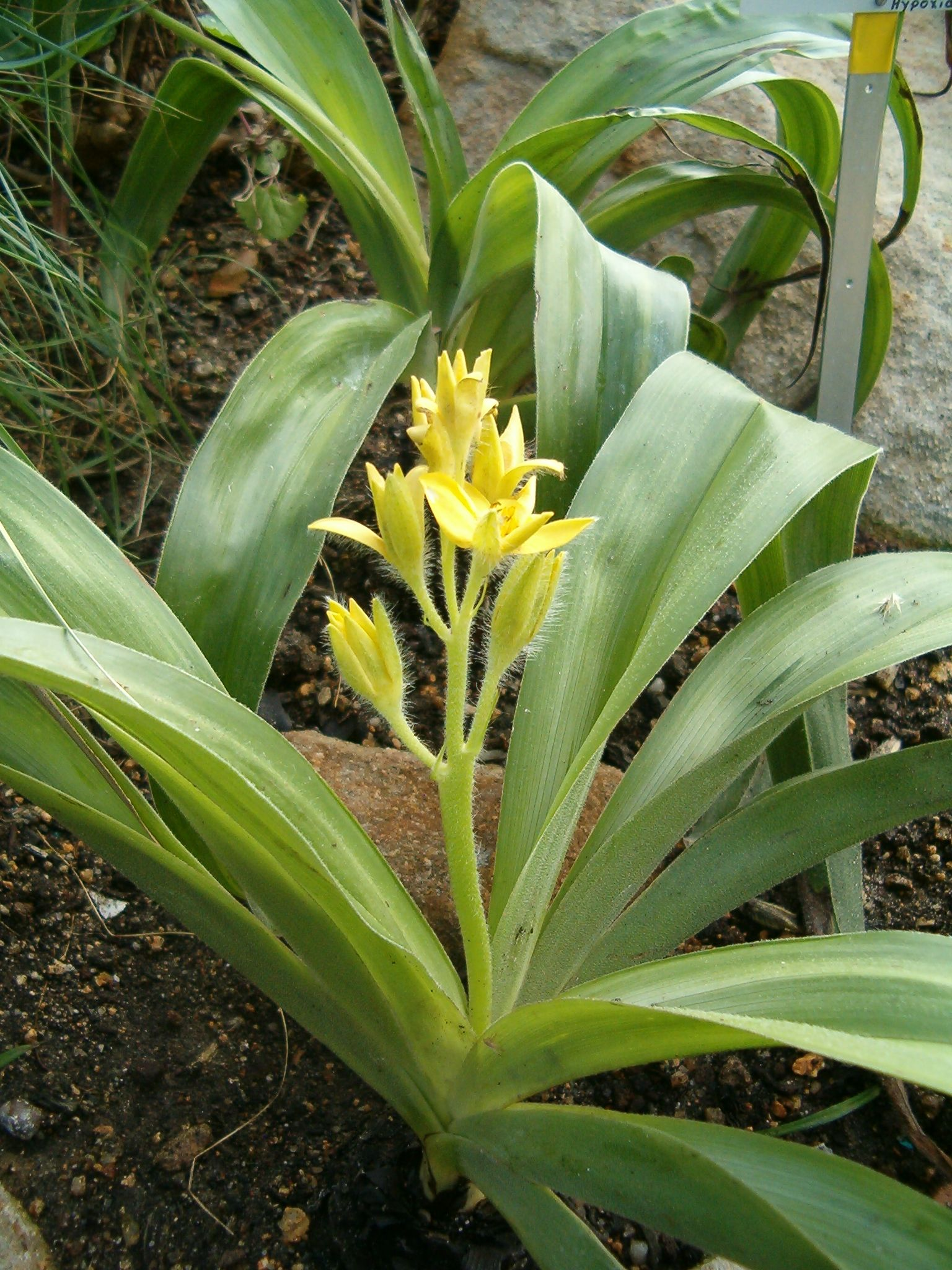 Habitus, Leaves and Inflorescence Species Hypoxis hemerocallidea Fisch. & C.A.Mey. Genus Hypoxis Family Hypoxidaceae Location Berlin Botanical Gardens Berlin-Dahlem Time November 2005